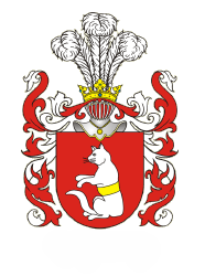 Herb Kot Morski Clan File:POL COA Kot Morski.svg is a vector version of this file. It should be used in place of this raster image when not inferior. File:Herb Kot Morski.PNG File:POL COA Kot Morski.svg For more information, see Help:SVG. In other languages